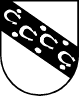 Source: "Fahnen-Gärtner GmbH, Mittersill" This file depicts a coat of arms. The composition of coats of arms are generally public domain with respect to copyright laws, and may be reproduced freely. This corresponds to the international traditional usage, and is explicitly stated in some national copyright laws. Some compositions, of more recent origin, may be copyrighted. This is not a valid license as such, being a "public domain" statement for the coat of arms definition only. It must be completed with the copyright tag associated to the picture creation. See Commons:Coats of arms for further information. Please note that this applies only to the coat of arms definition (composition / description). The representation of a coat of arms is an artistic creation, subject as such to copyright laws. Restriction of use - Legal notice: Most of the time, the usage of coats of arms is governed by legal restrictions, independent of the status of the depiction shown here. A coat of arms represents its owner. Though it can be freely represented, it cannot be appropriated, or used in such a way as to create a confusion with or a prejudice to its owner. Usage on Commons: Please provide licence information for the coat of arm representation, information for the author of the picture, and the source if not self-made work.